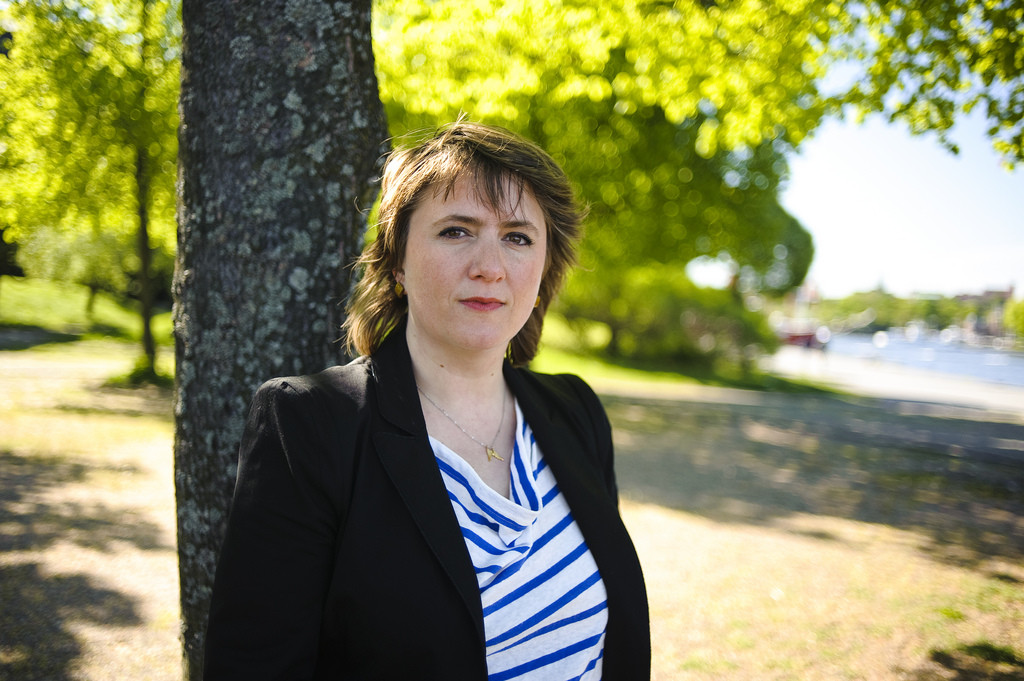 Belgian illustrator and author Kitty Crowther in Stockholm, Sweden.